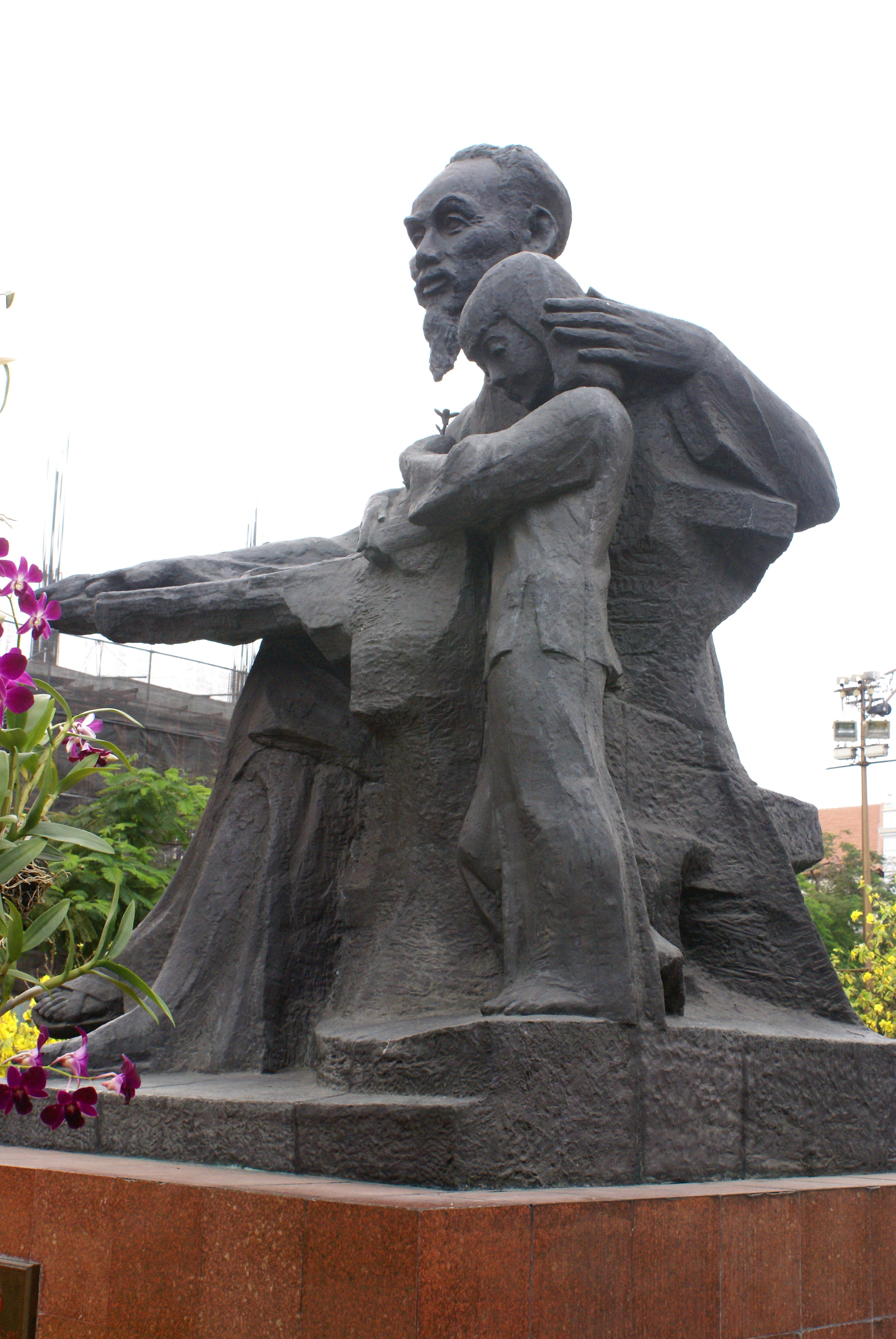 Ho Chi Minh statue in front of the City Hall of Ho Chi Minh City.